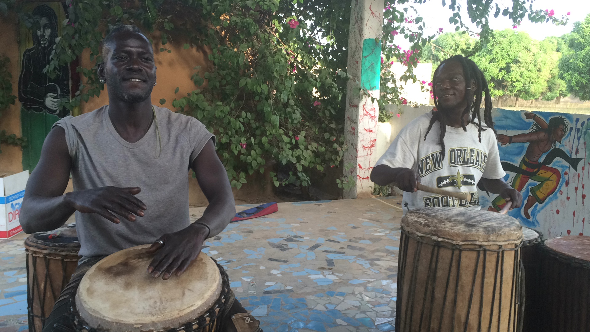 A Djembe and Dunun player jamming. This is an image from Mali